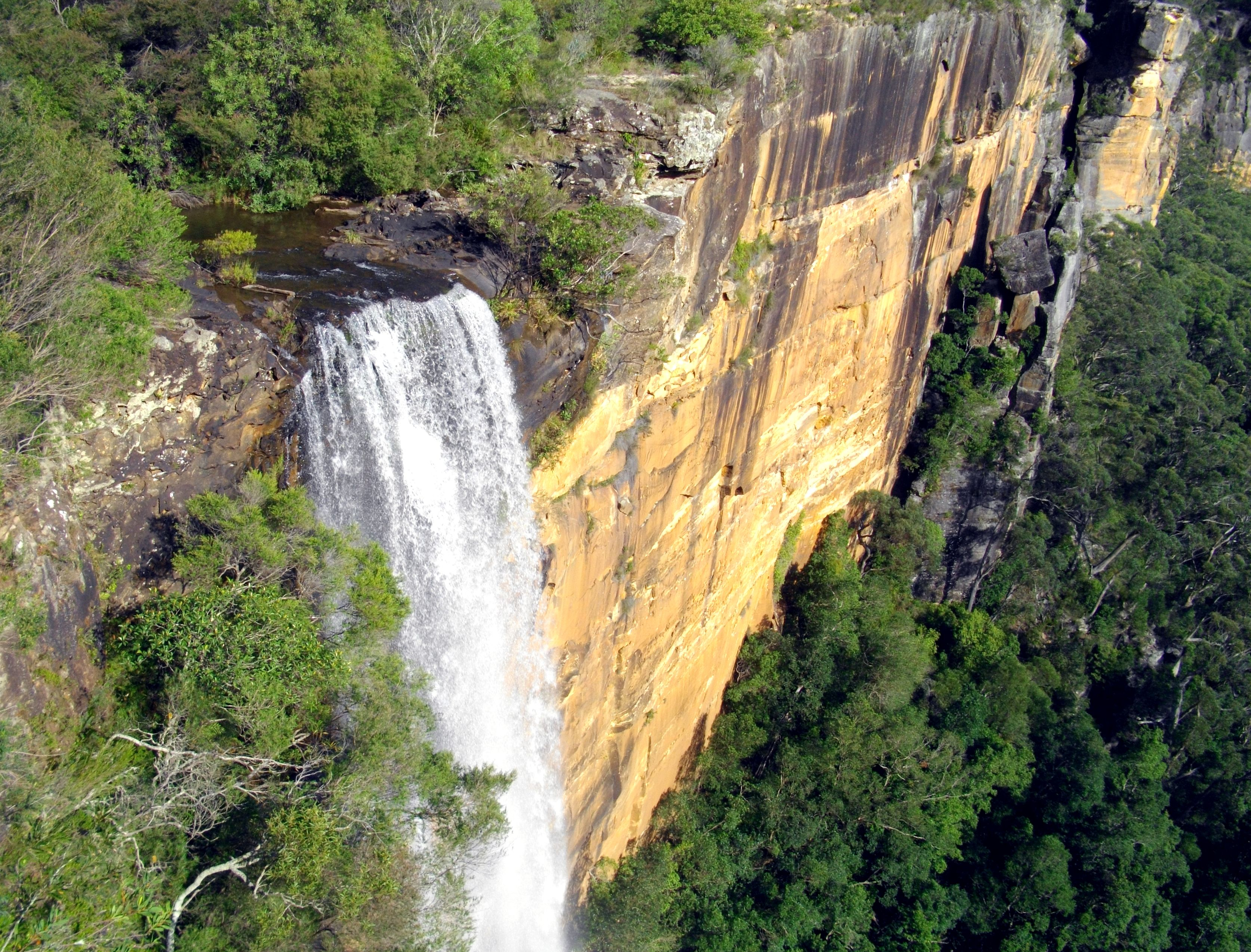 The Fitzroy Falls near Moss Vale in the Southern Highlands of New South Wales, Australia. Depth of the fall is 81 metres.